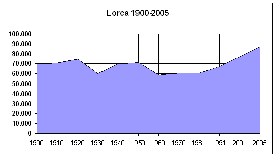 Lorca's population, Murcia, Spain, (1900-2005). Own work, given to PD. Source: Instituto Nacional de Estadística.